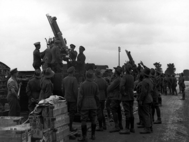 Australian troops watching anti aircraft guns firing at a German airfield (?) near Morbecque. Note the ammunition boxes in left foreground. Comment : The gun appears to be a 13 pounder 9 cwt. It is part of the same shoot as Image:13pdr9cwtAntiAircraftGunMorbecque31August1917.jpg